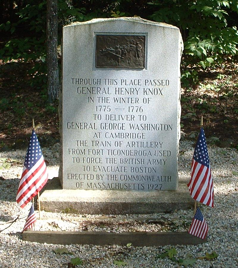 A marker along the Knox Trail in Otis, Massachusetts Near the intersection of Otis Rd (Rte. 23) and Ray Hubbard Rd, East Otis, MA